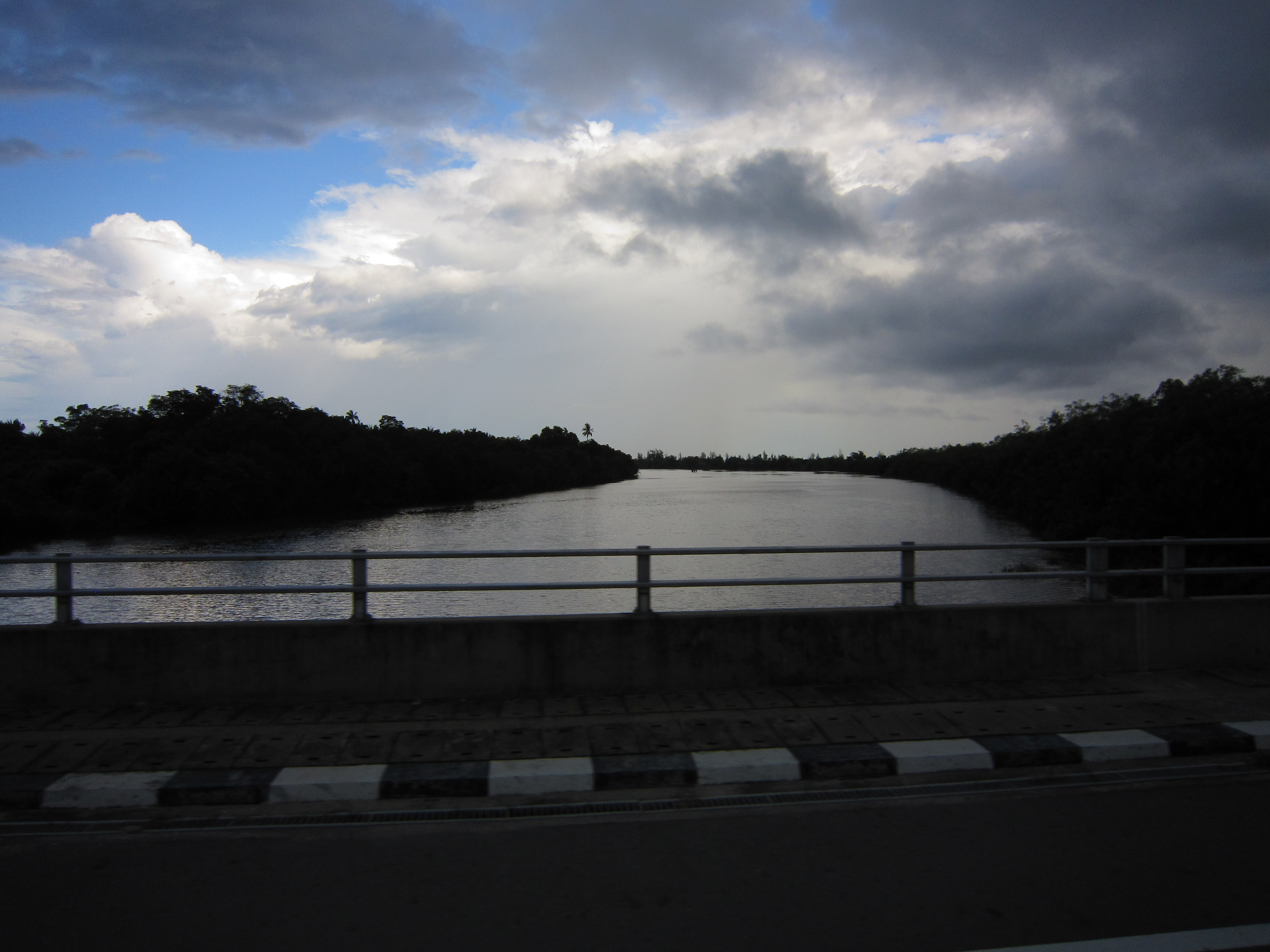 Tutong River